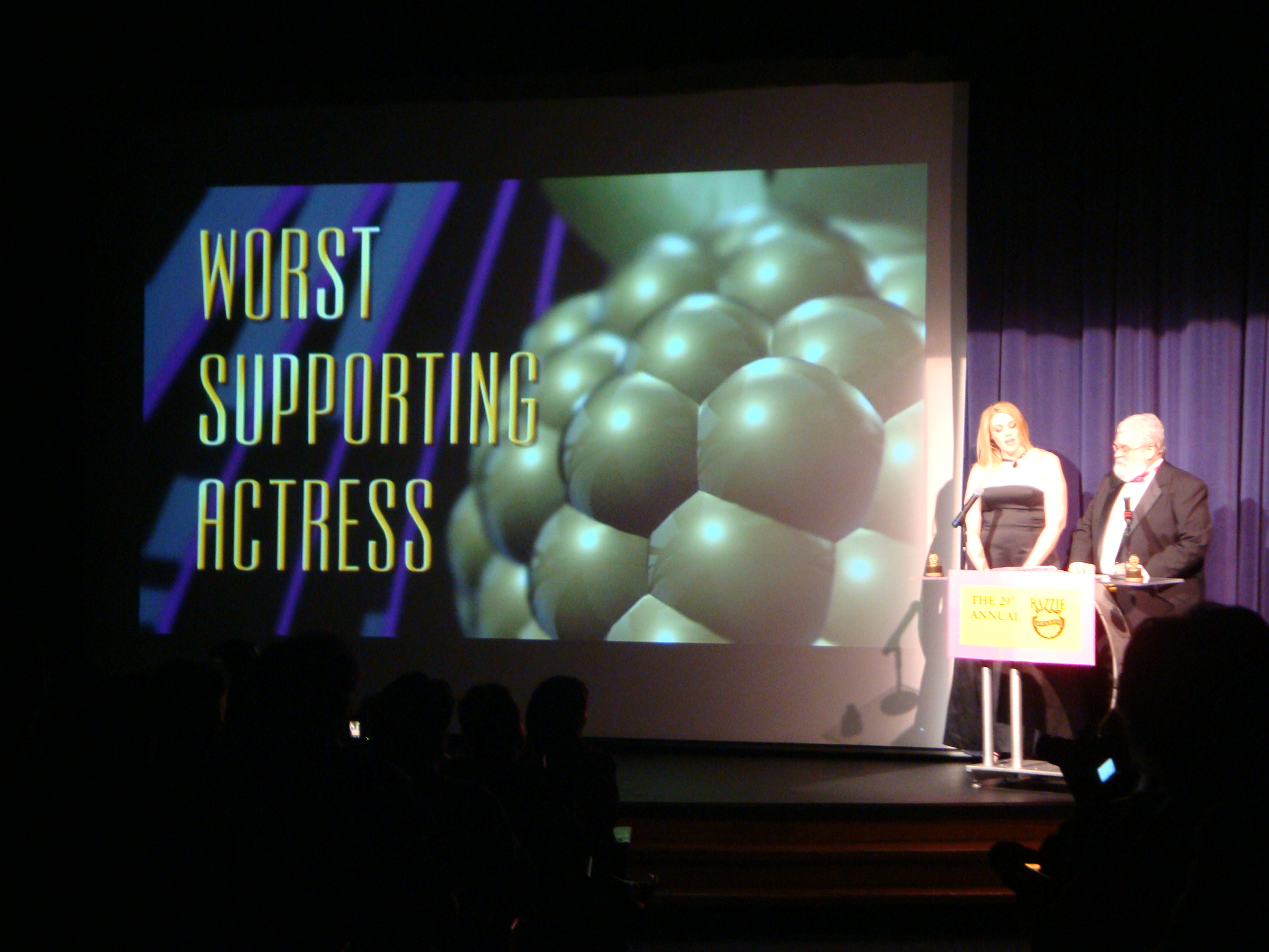 The Razzies at Barnsdall Gallery Theatre. Feb. 21, 2009